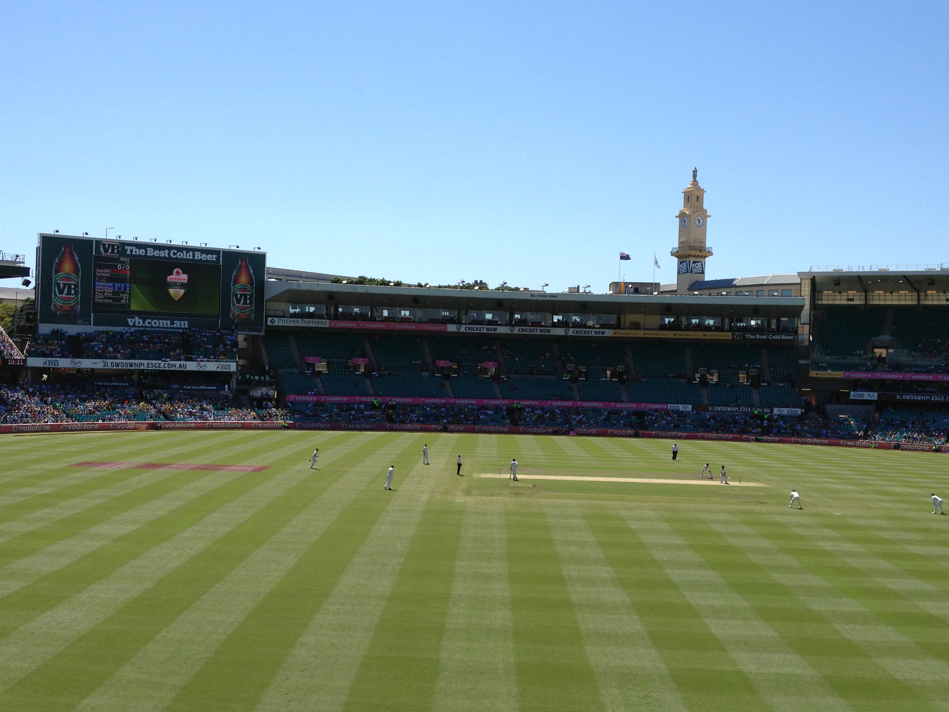 Pattinson running in to make the second delivery of the 2012 SCG test match Australia v India. With the subsequent ball he bowled out (caught by Michael Clarke) G. Gabmhir for a duck.